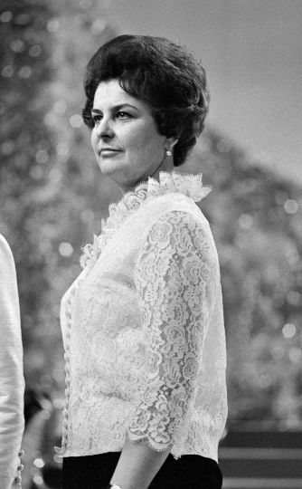 Photograph of the Finnish opera vocalist Irma Rewell (1929–2010) at Miss Suomi beauty contest.